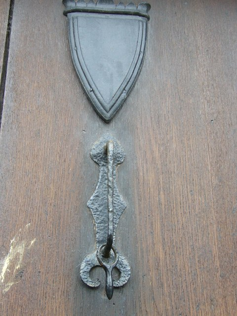 Tirling pin, Royal Mile The tirling pin was a primitive ancestor of the door-bell and a cousin of the door-knocker. It was scraped up and down to make a rattling sound that would announce a visitor's presence. This one is on the door of Cannonball House on Castlehill. Alas, the word 'tirling' has disappeared as no-one has any use for it any more. The original 'Wee Willie Winkie' poem by William Miller may be its final resting-place (provided it is not translated). Wee Willie Winkie rins through the toun, Up stairs and doon stairs in his nicht-goun, Tirlin' at the window, cryin' at the lock, 'Are the weans in their bed, for it's noo ten o'clock?'